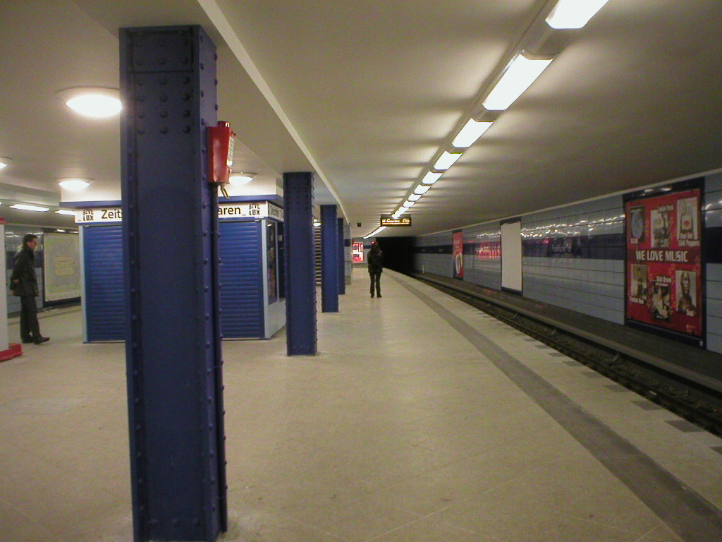 The Berlin U-Bahn station Frankfurter Tor, line U5